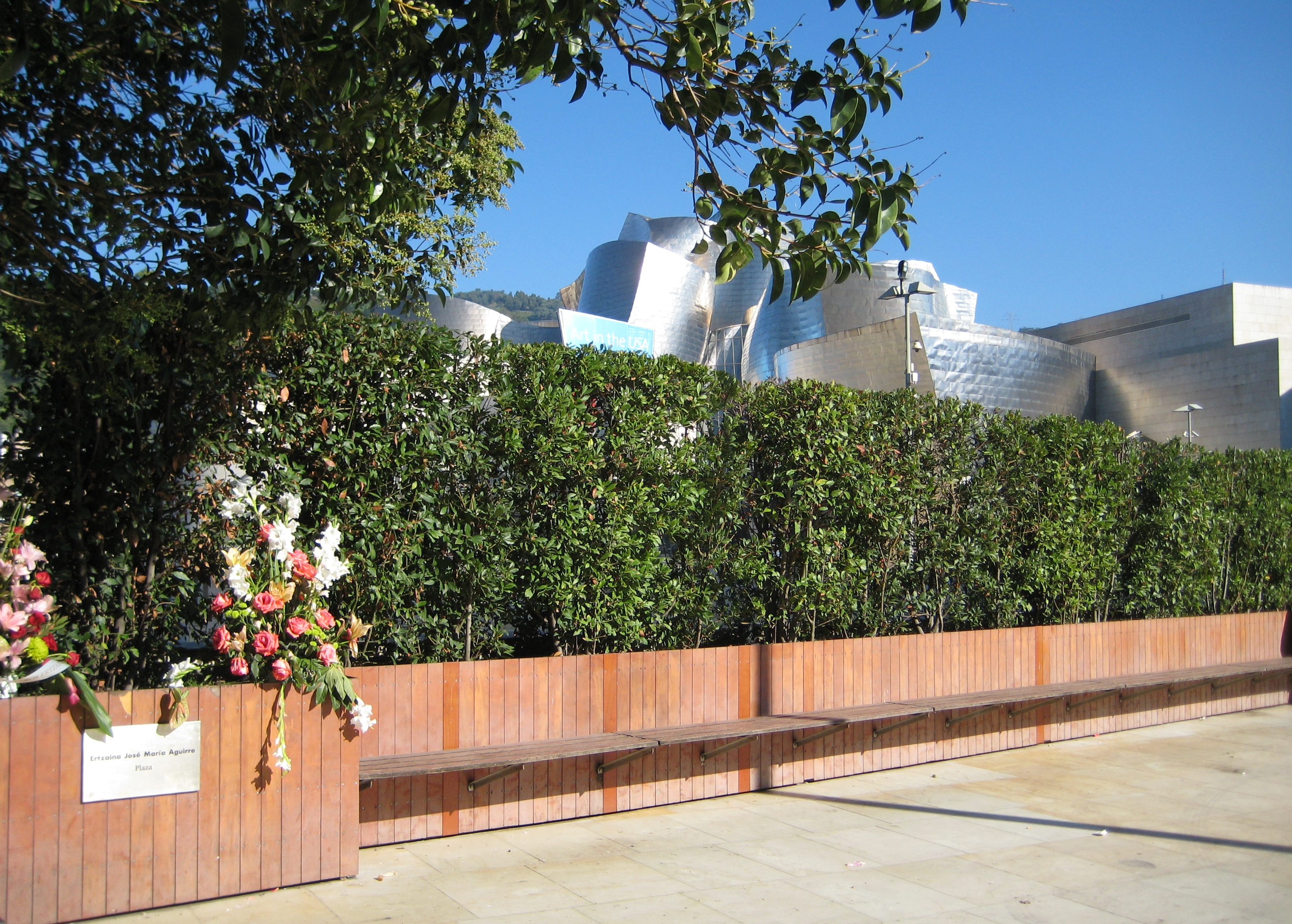 Flowers and plaque honouring José María Aguirre Larraona, ertzaina (officer of the police force of the Basque Autonomous Community) shot dead by ETA on October 13 1997 at the plaza currently bearing his name, besides the Guggenheim Museum in Bilbao